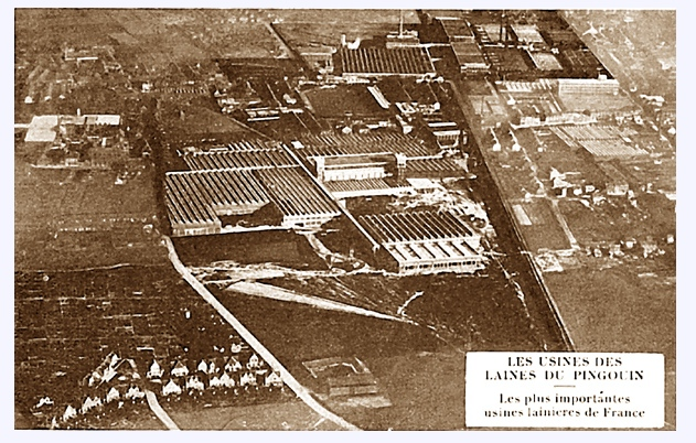 French carte postale : photo taken from the sky, showing the factory complex of Laines de Pingouin / La Lainière de Roubaix in Roubaix, at La Fosse aux chênes, rue d'Oran.